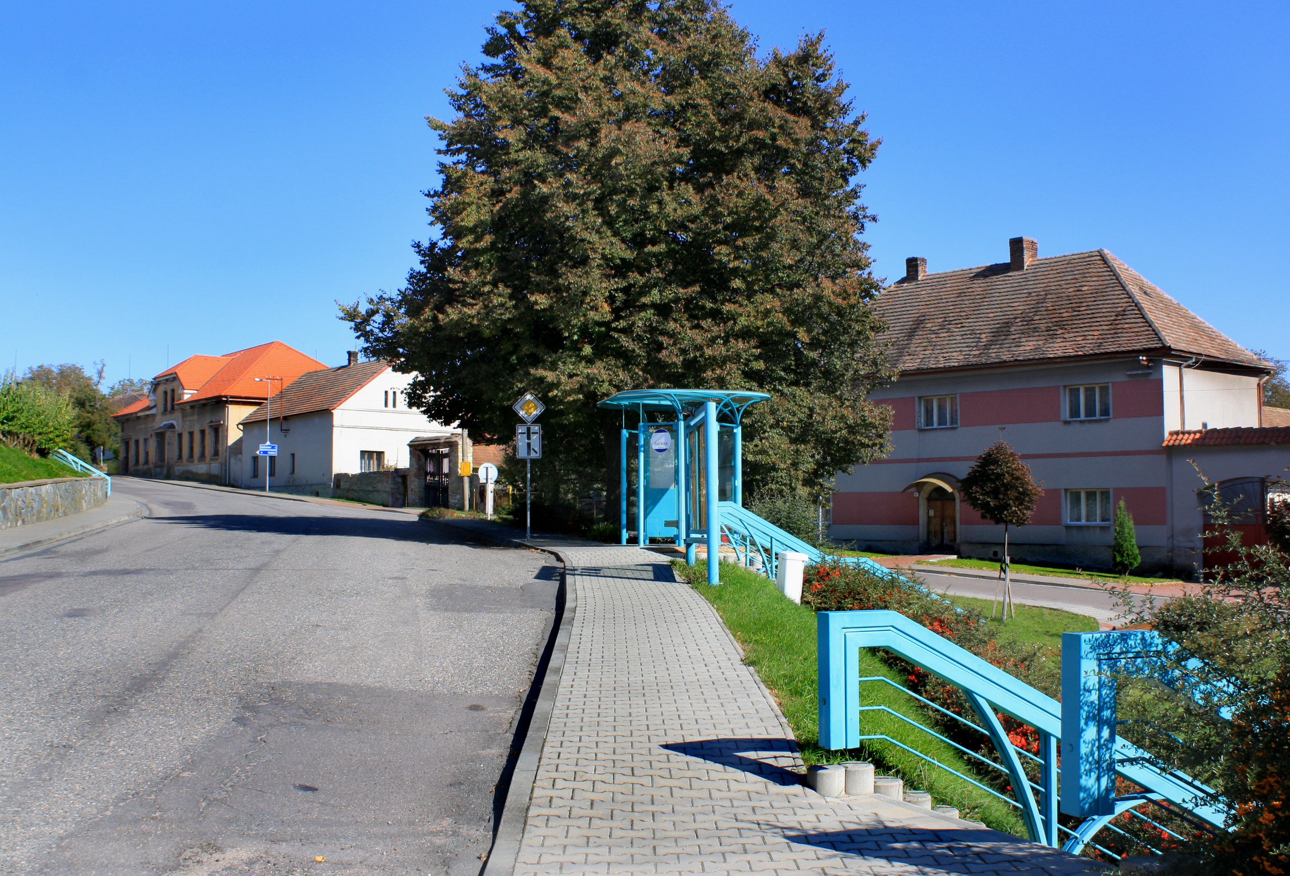 Common in Dvakačovice, Czech Republic